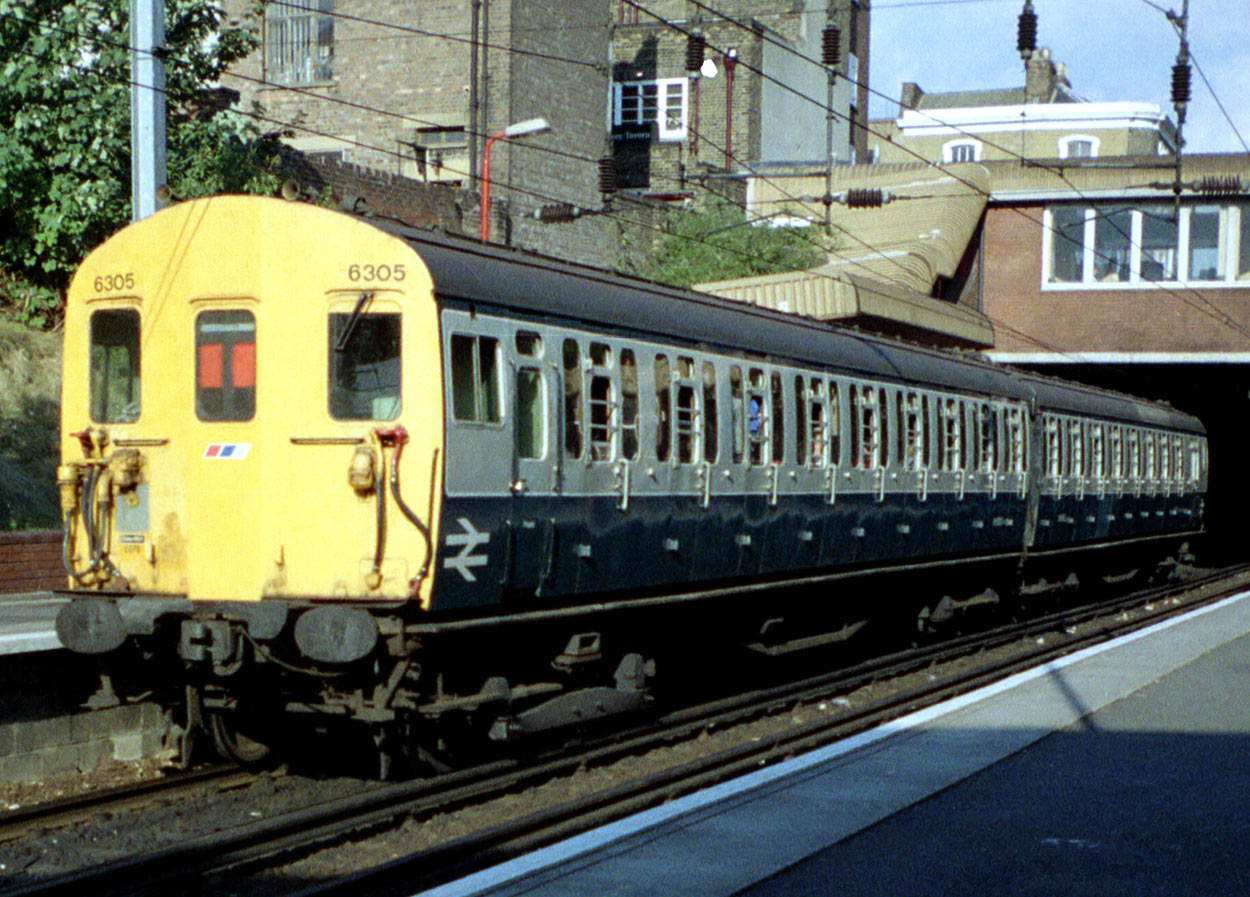 Class 416 train in British Railways blue/grey livery calls at Dalston Kingsland station, on a North London Line working. The NLL is both 25kV overhead AC and 750V third-rail electrified at this point.